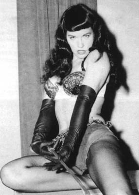 Bettie Page with a riding crop